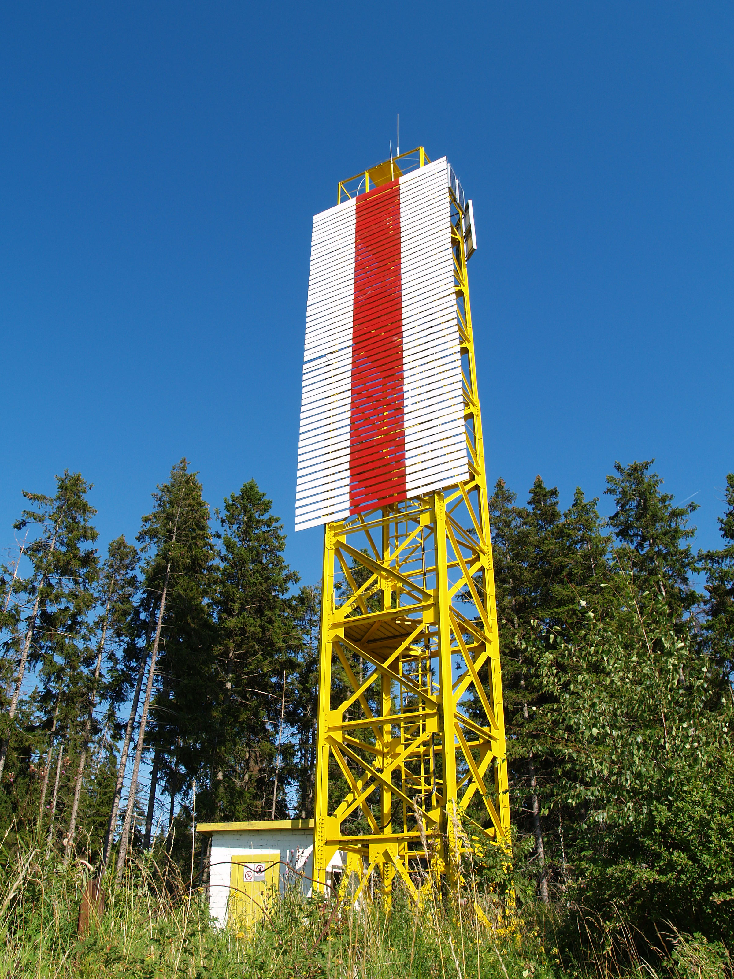 Kessu upper leading light beacon. Lower light beackon of Kessu is shown in that picture